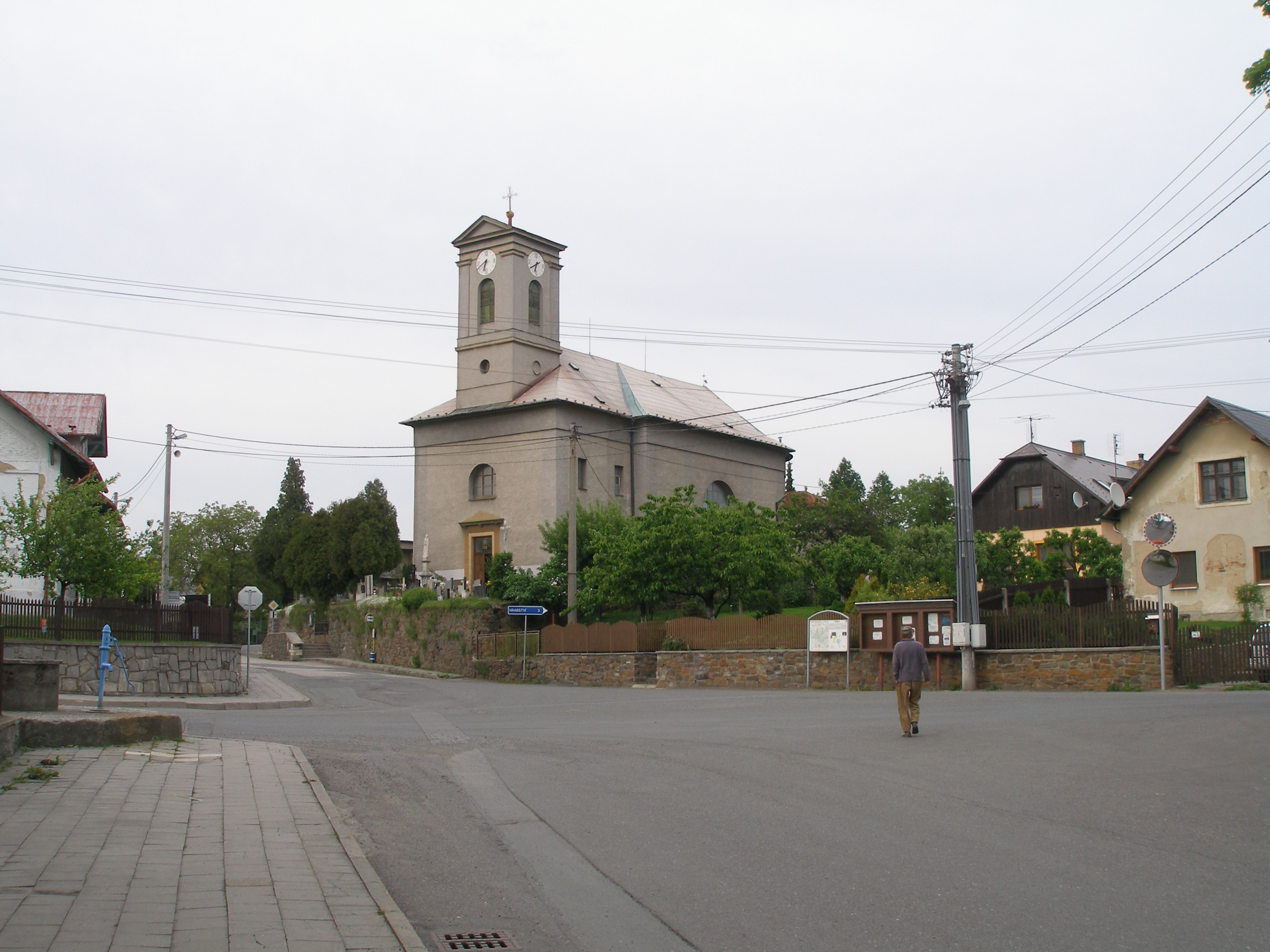 Square in Skřipov with the church